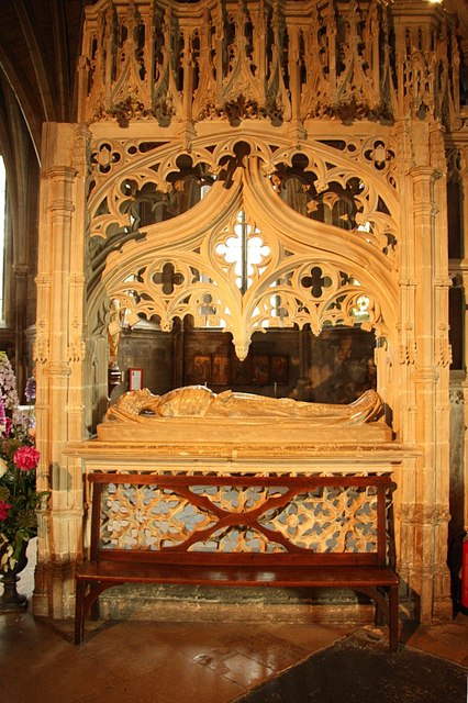 Wakeman Cenotaph Tomb in Tewkesbury Abbey depicting a decaying cadaver in an open shroud covered in vermin, reputedly John Wakeman, last Abbott of Tewkesbury who died in 1549. There is some doubt whether this is Wakeman as the memento mori fashion and decorative style of the canopy is typical of the mid-15th century (ie. 100 years earlier)